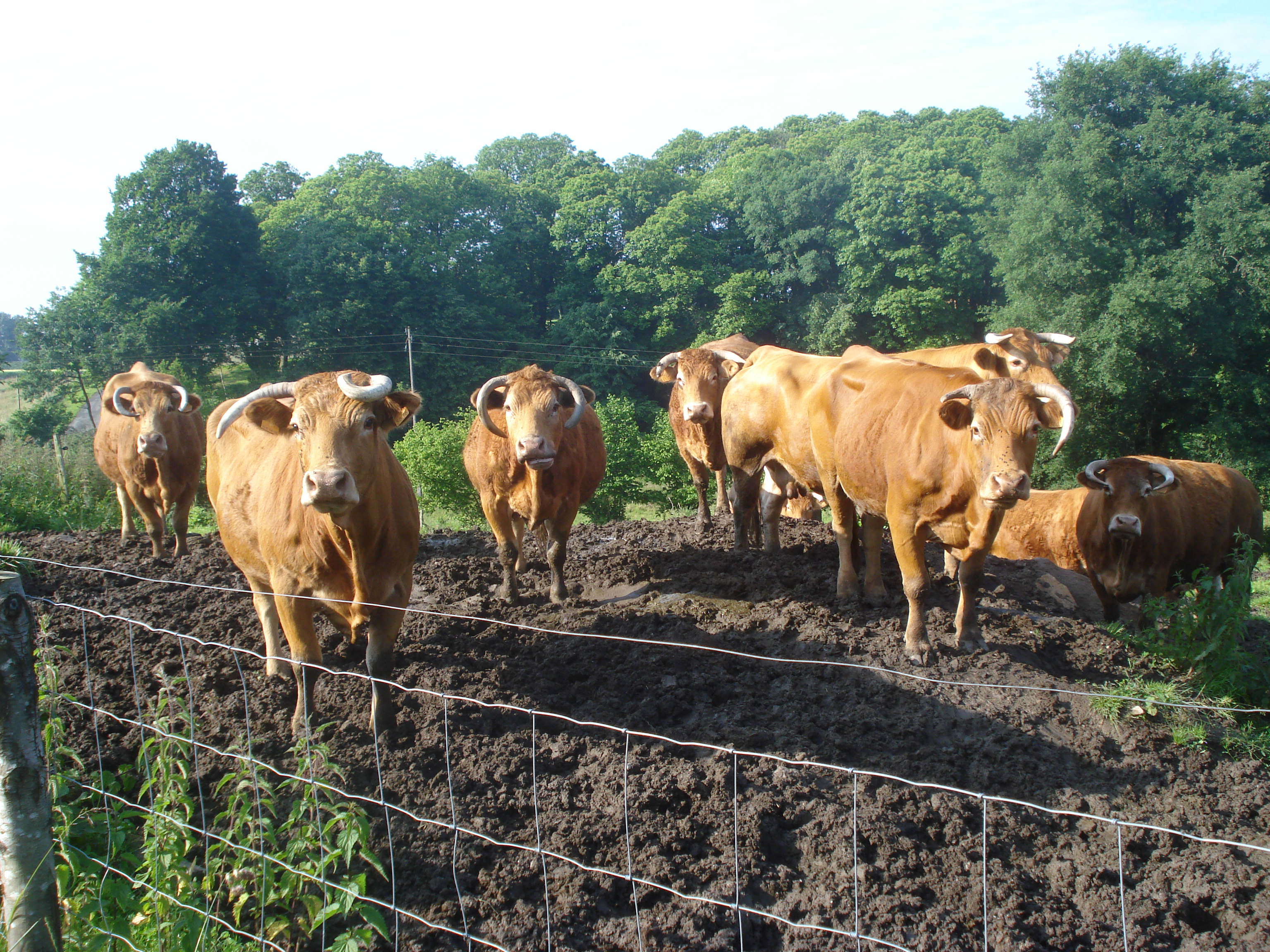 Chamborand (Creuse, Fr), limousin cows